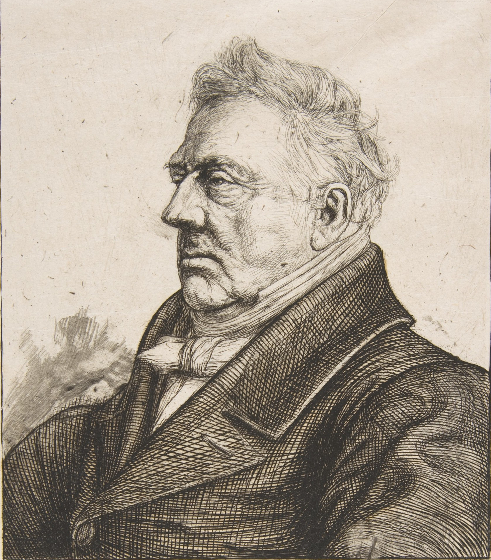 Print; Prints